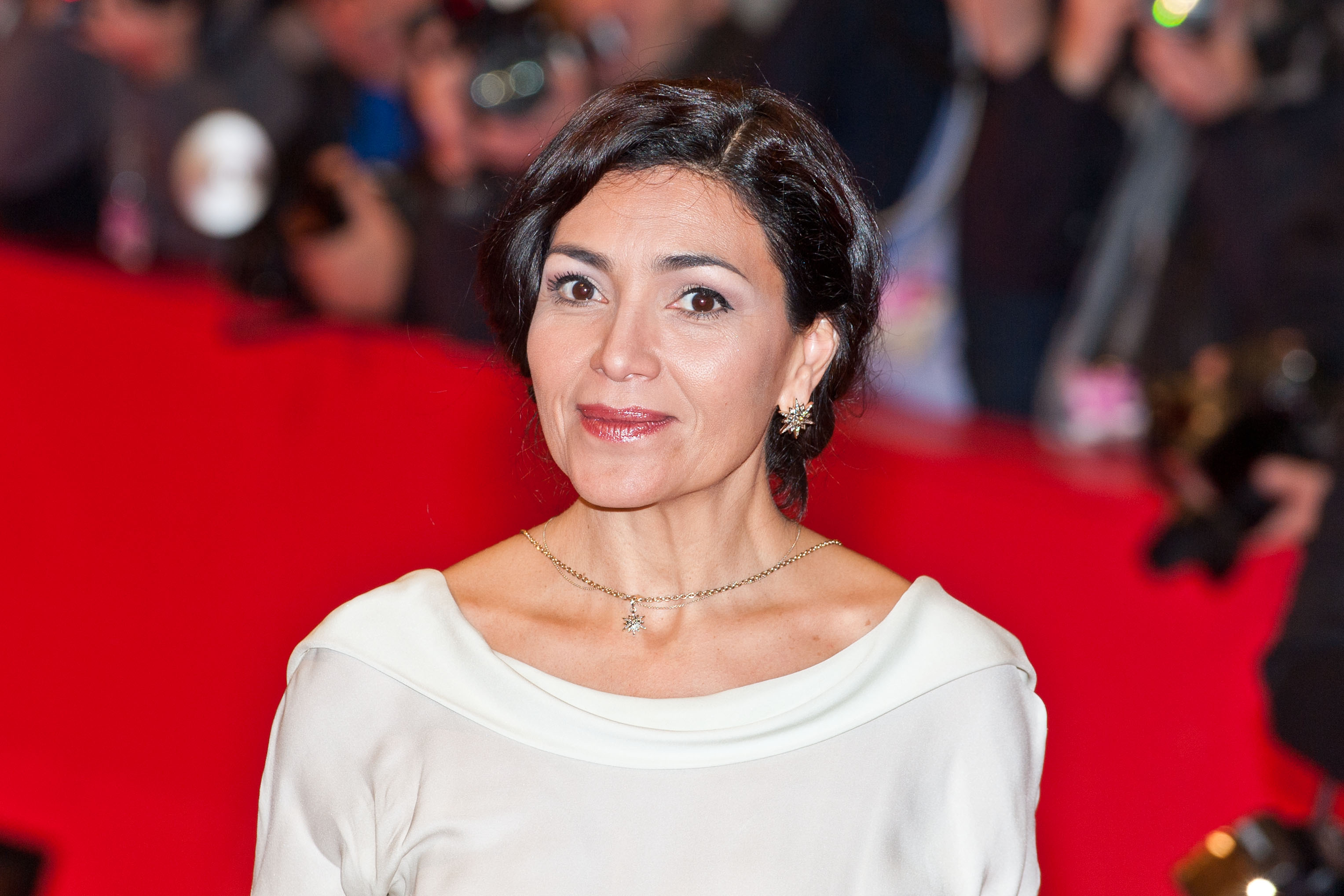 Mexican actress Dolores Heredia at the premiere of the movie "Two Men in Town (La voie de l'ennemi)"